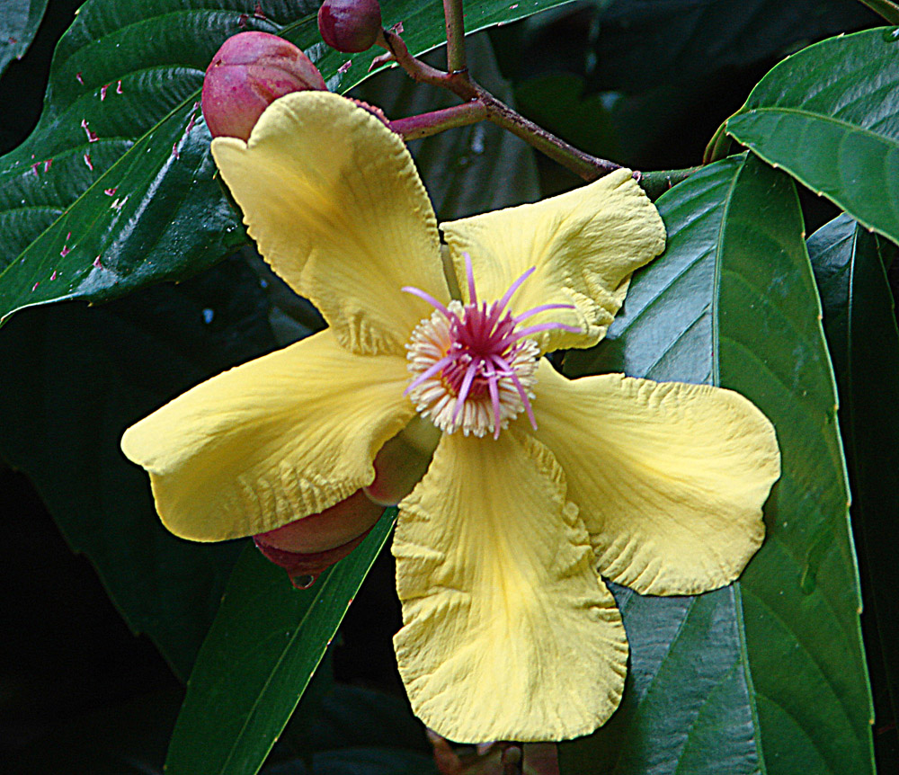 From Kelandaun Oxbow Lake, northern Borneo, where it is known as Simpoh Ungu.